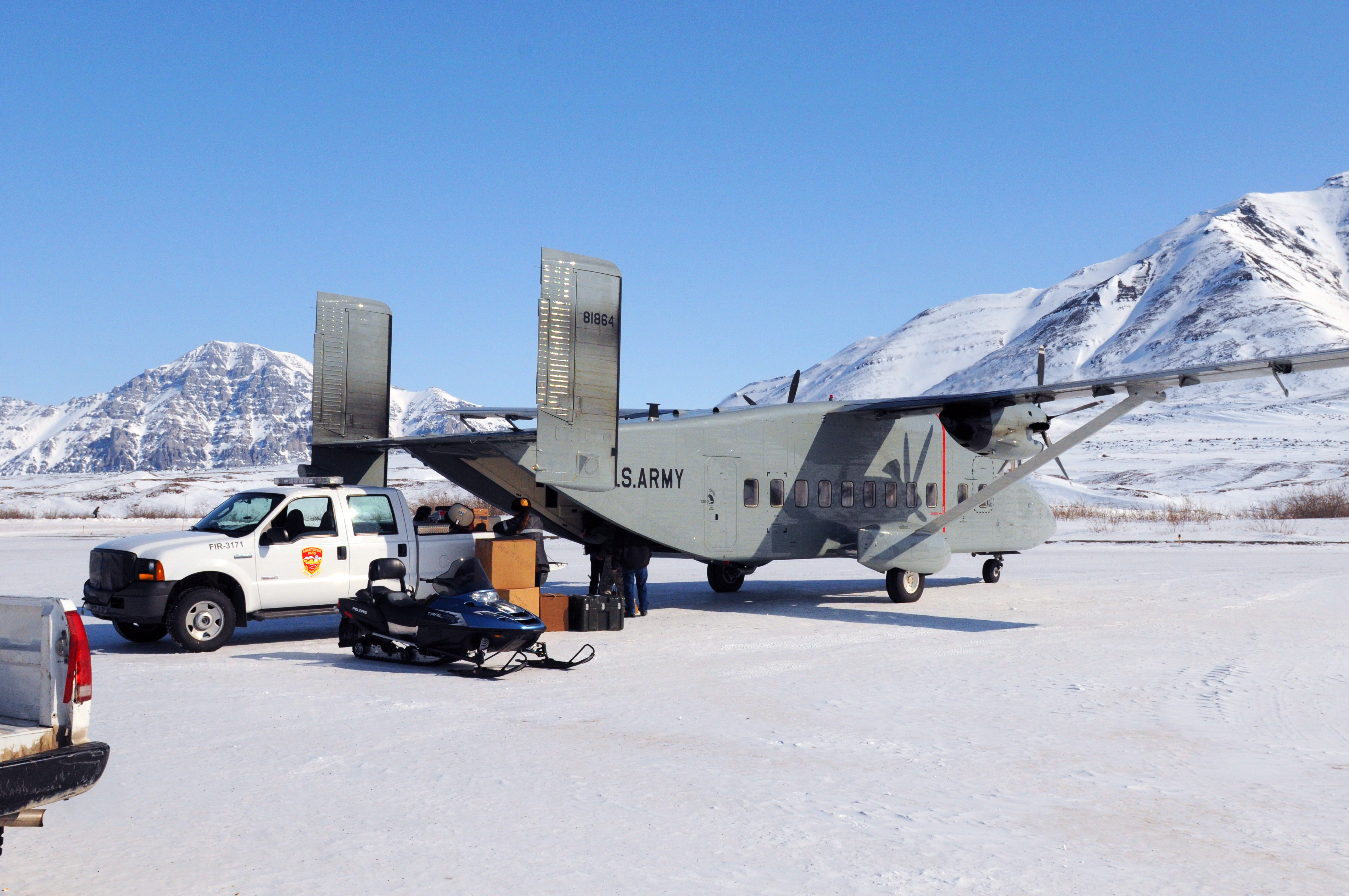 LANDING IN A TIGHT SPOT - Surrounded by mountains a C-23 (Sherpa) from the F Company 207th Tactical Aviation Company Alaska National Guard executed a precise landing in the Alaskan village of Anaktuvuk Pass. Members of the local fire department help unload and transport medical supplies for Arctic Care 2011. The Arctic Care medical teams provided health care services to the local population. (Army Photo by Lt. Col. Brent Campbell, 807th MDSC Public Affairs)